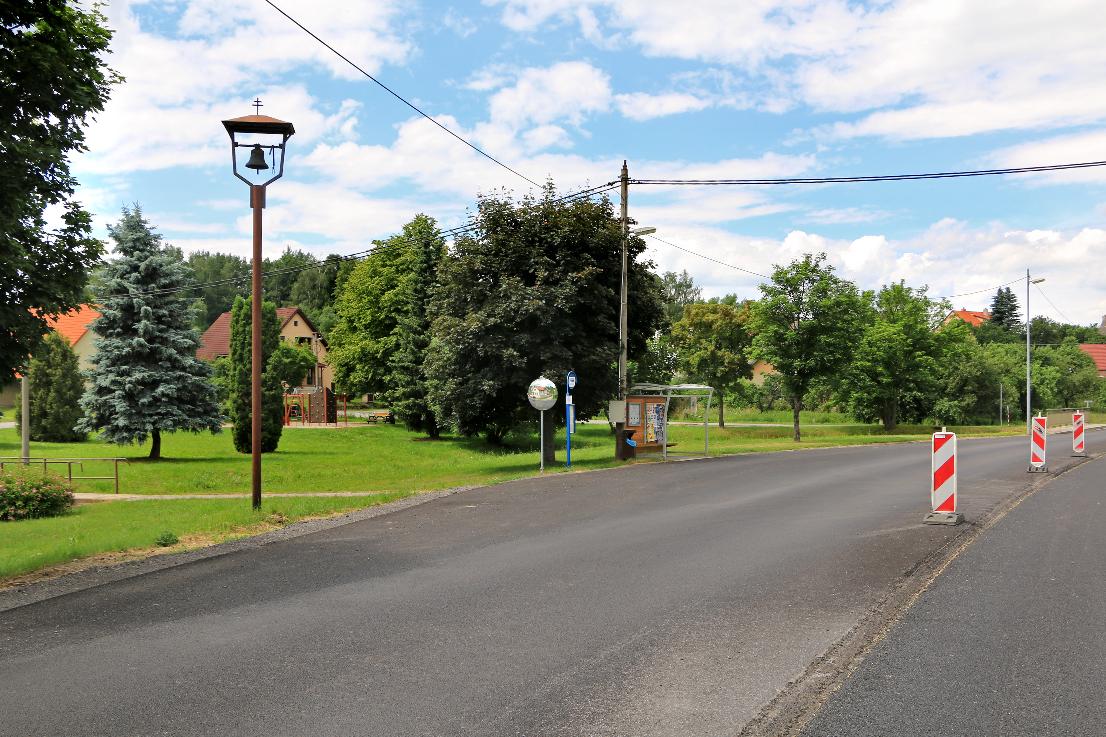 Road No 38 in Prostředkovice, part of Suchá, Czech Republic.